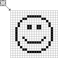 Example show 16x16 smile face picture bigger 8 times to show the pixels in the pictures (with grid).